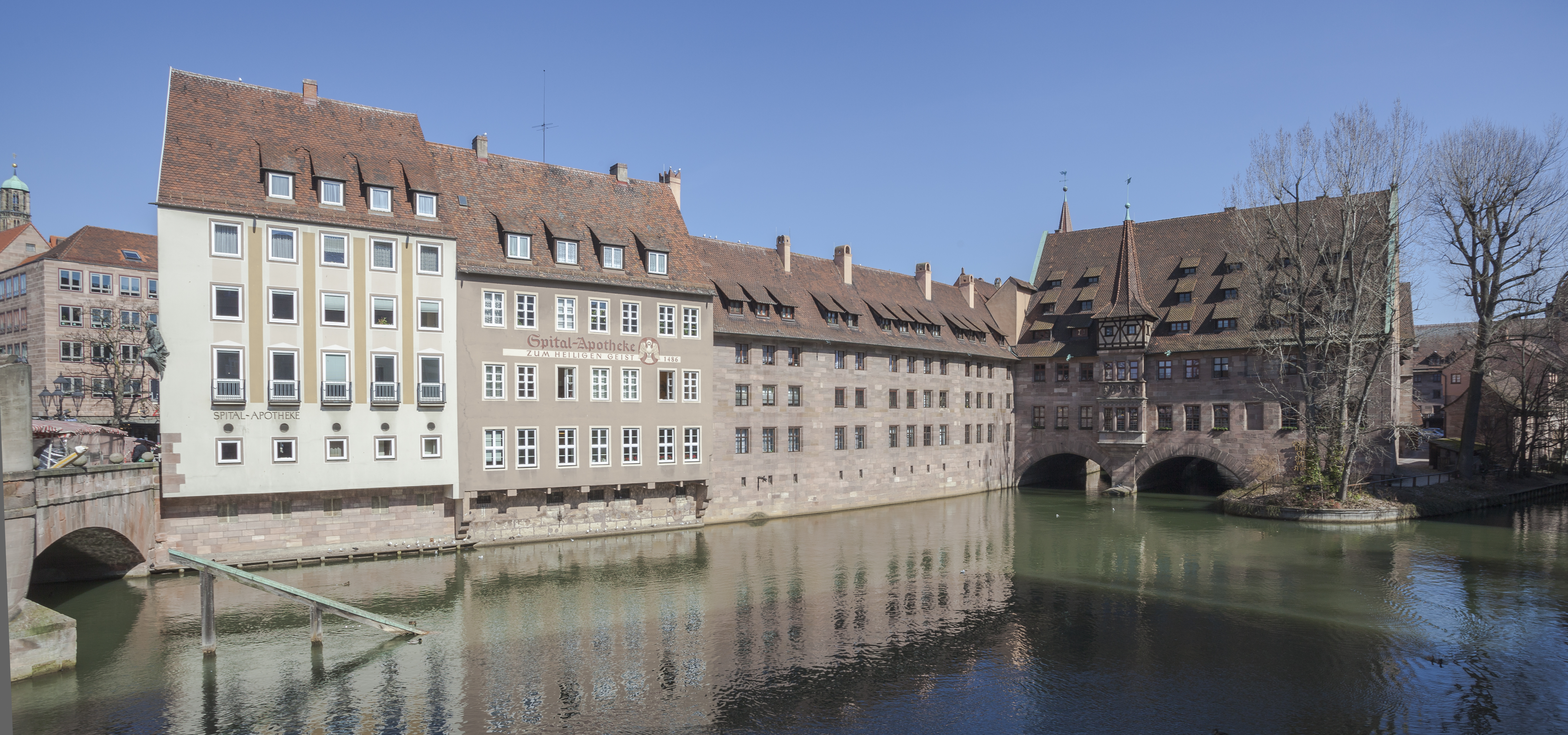 Hospital of the Holy Spirit, Nuremberg, Germany